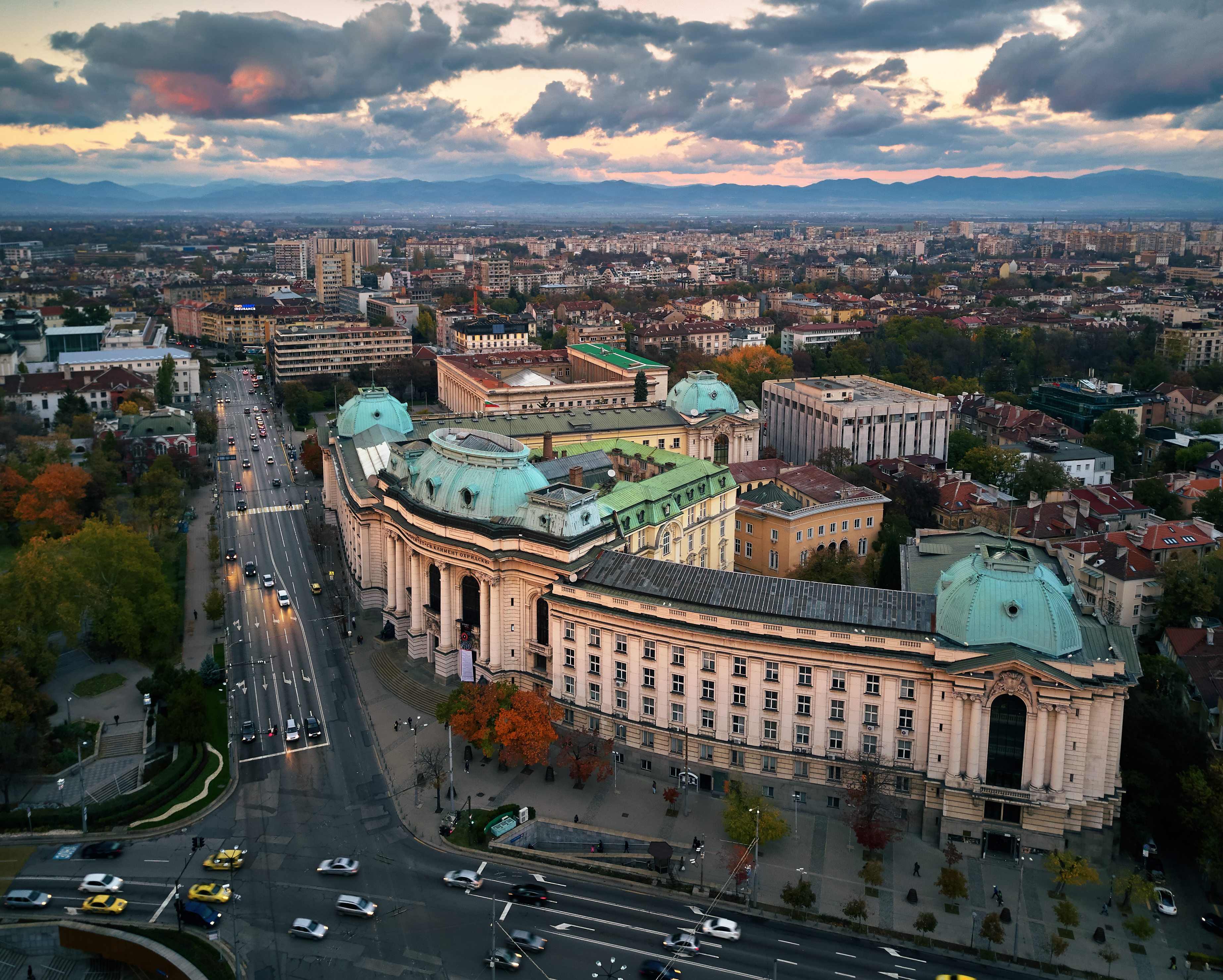 Sofia University